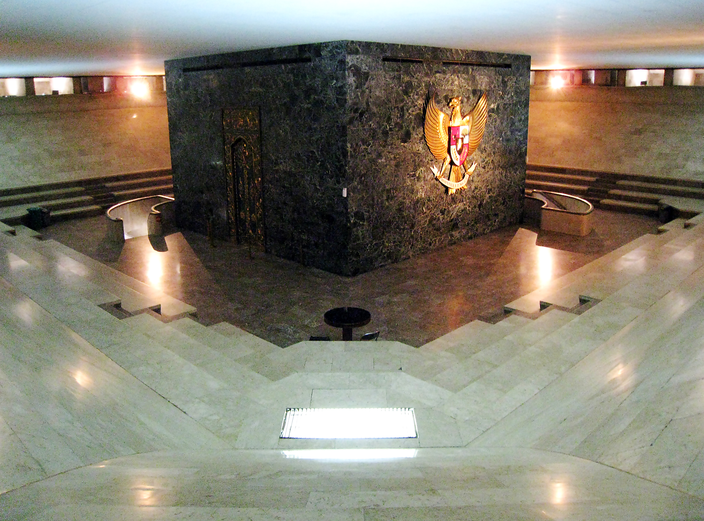 The Independence Room inside the goblet of National Monument of Indonesia, Jakarta. The room is took shape as auditorium and stored independence relics and national symbols of Indonesia; such as the text of Indonesian Proclamation of Independence, Garuda Pancasila, the coat of arms of Indonesia, and Map of Indonesian Archipelago, coated in gold.